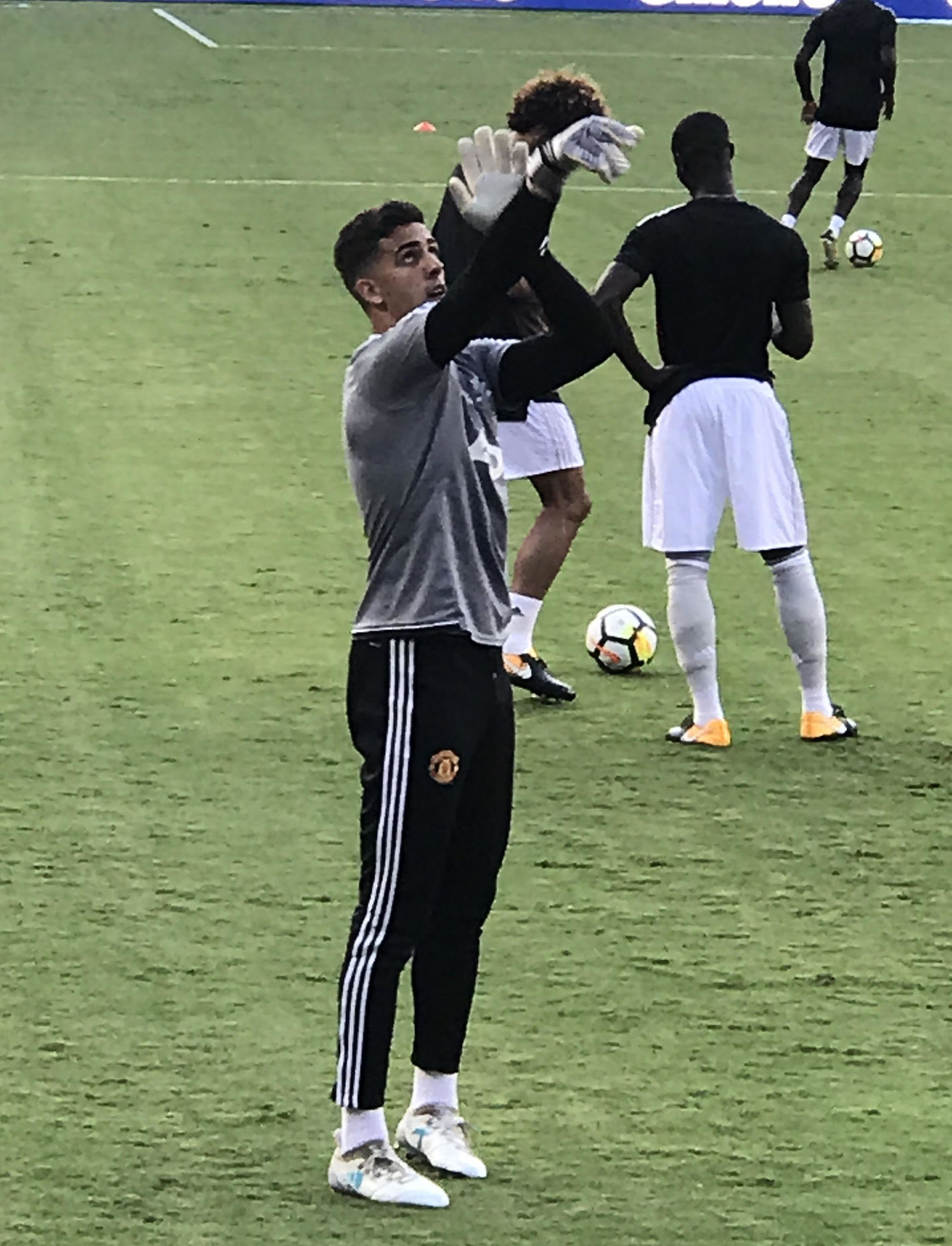 Joel Castro Pereira warming up at FedEx Field in Landover, Maryland